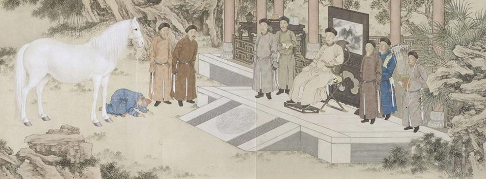 Handscroll of the Qianlong Emperor receiving tribute horses from Tartar envoys (soon after the conquest of Xinjiang)